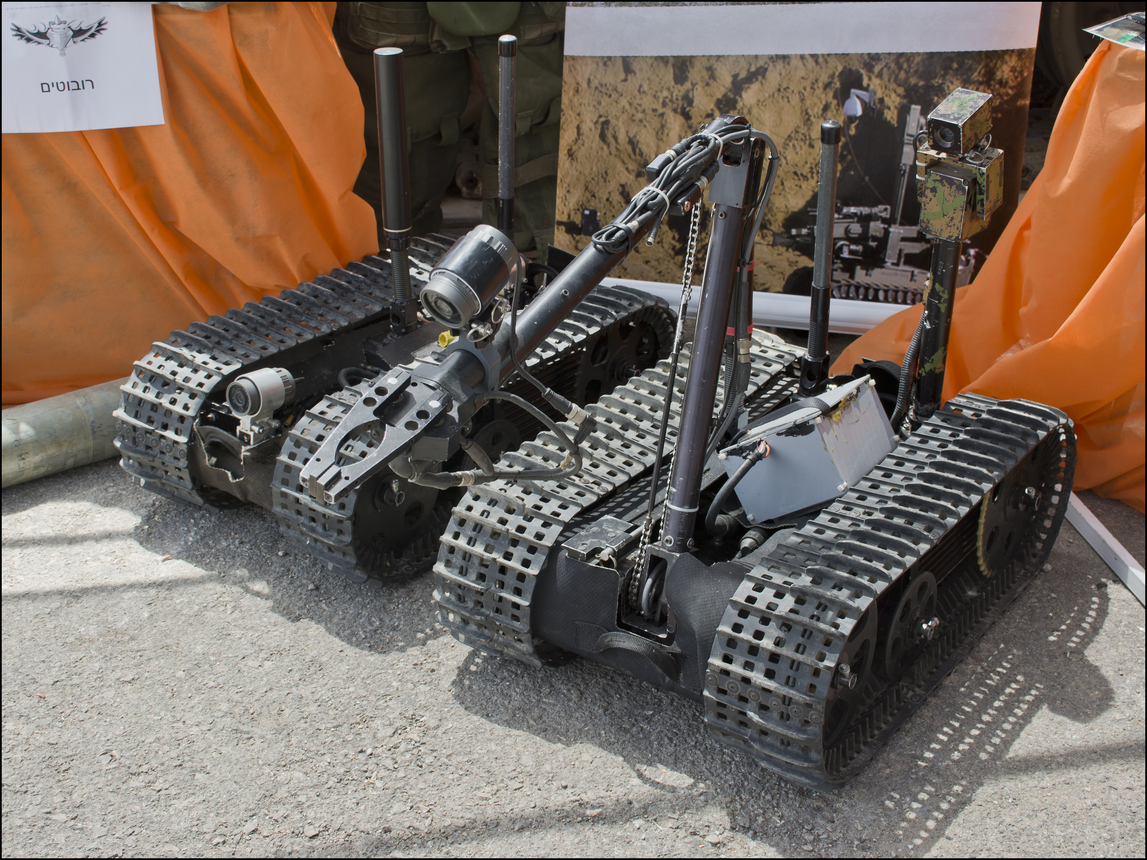 Yahalom's Talon EOD robots, Yad LaShiryon, Israel 70th Independence Day, 2018